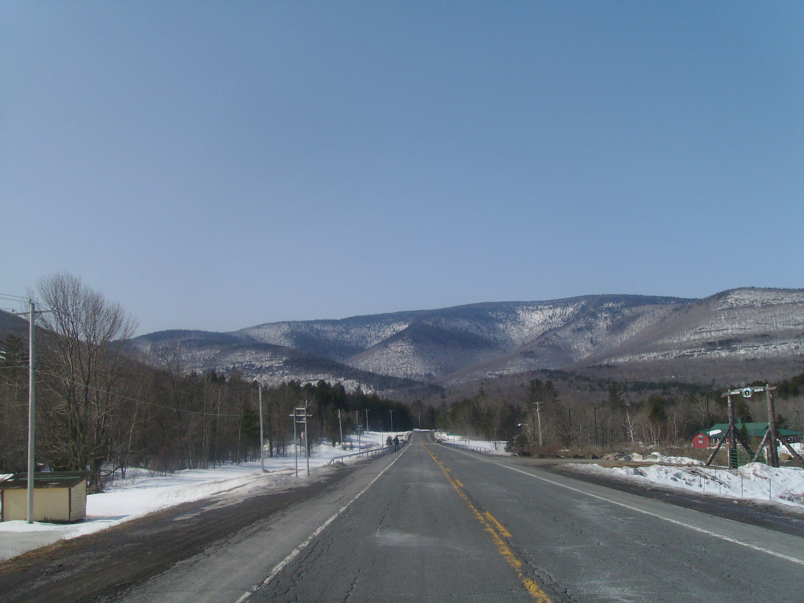 Facing southbound from the northern terminus of New York State Route 214 near Hunter, New York, several of the Catskills surround the highway. The entranceway to Hunter Mountain Skiing is visible to the west (right).